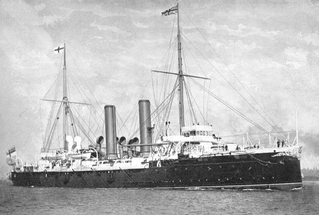 British cruiser HMS Royal Arthur of 1891.